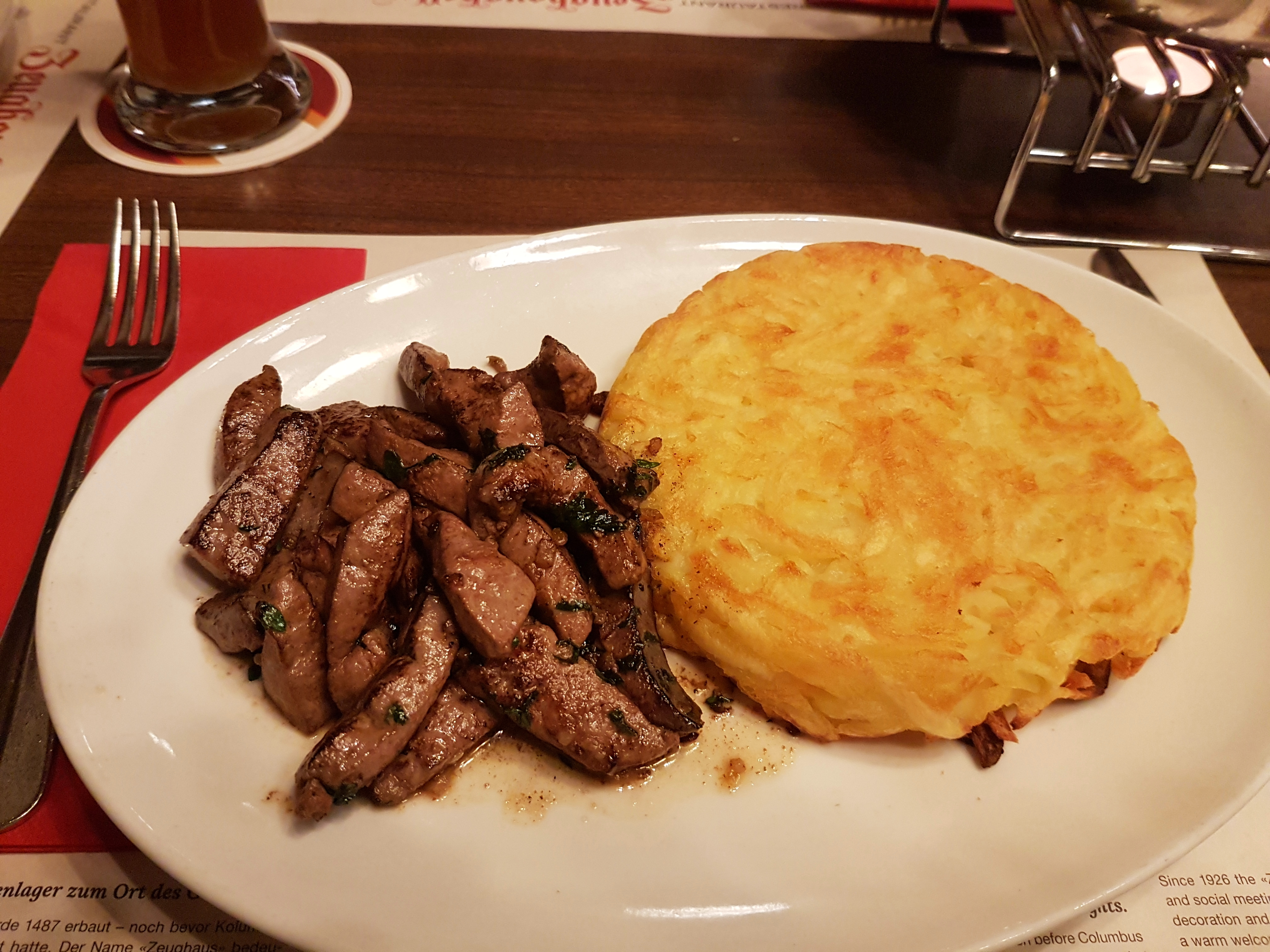 Sliced veal liver with Rösti. Photographed in the Zeughauskeller in Zurich.